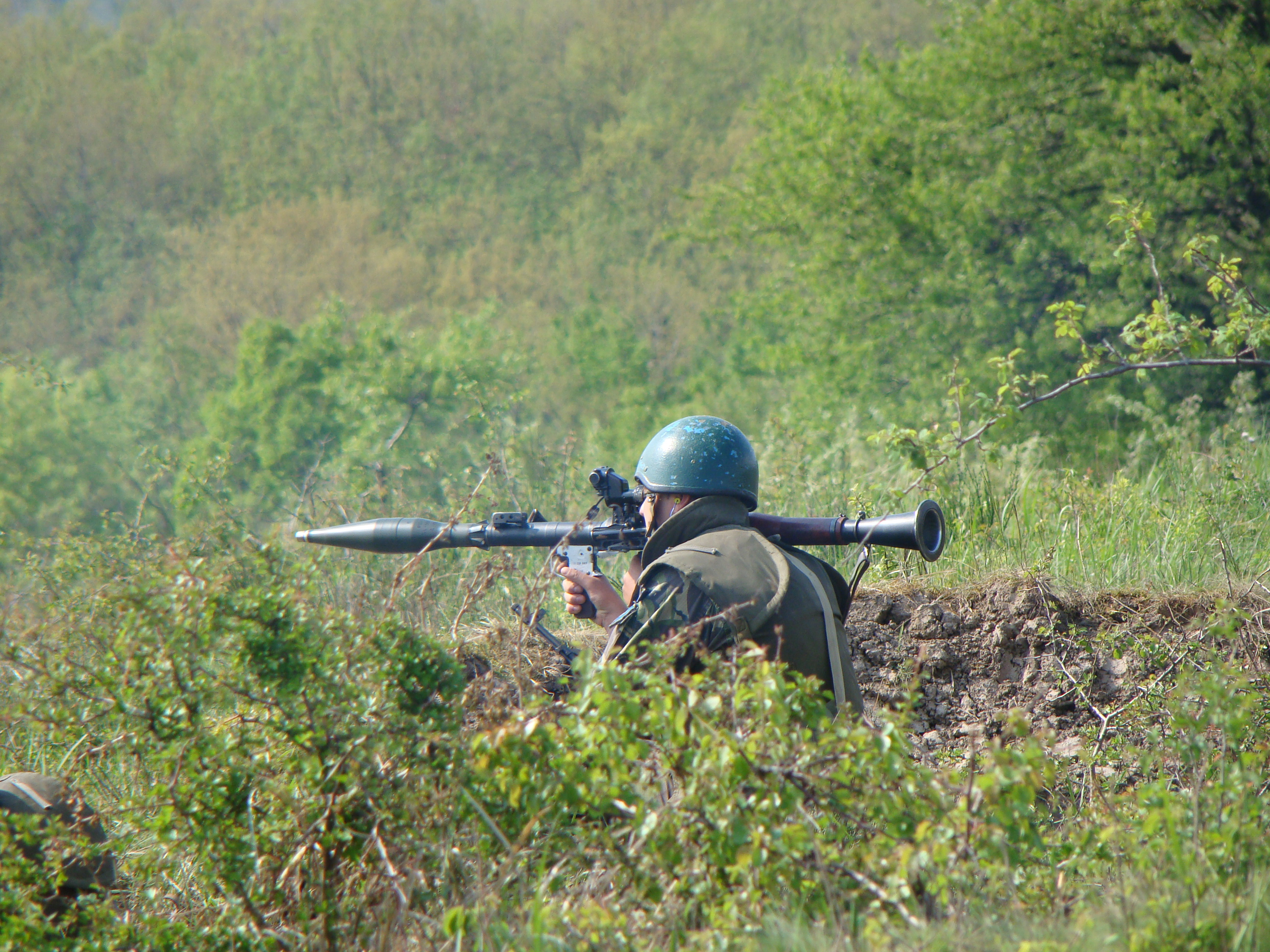 A Romanian soldier aiming a AG-7 (licensed built RPG-7) during a military exercise of the 191st Infantry Battalion.